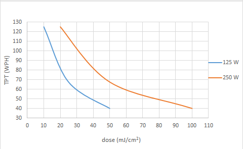 The wafer throughput is shown as a function of exposure dose for 125W and 250W sources. Ref.: I. Fomenkov et al., Adv. Opt. Tech. 6, 173 (2017).